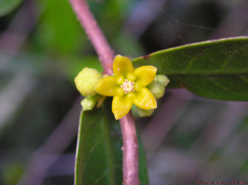 Family : Asclepiadaceae Distribution: Common and gregarious on low shrubs . Native of India, and Sri Lanka. Twining wiry herbs, perennial, latex milky, leaves linear-oblong, base rounded, apex acute. Flowers 5-6mm across, yellow in dense clusters. Roots are cooling, with good smell, known as 'Sugandhapala' Photographed at Nelapattu bird sanctury.